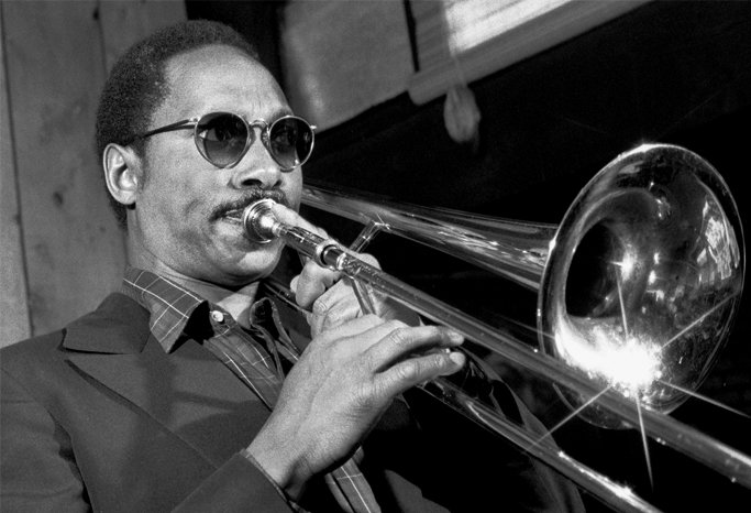 Julian Priester in 1987. Photo by Brian McMillen